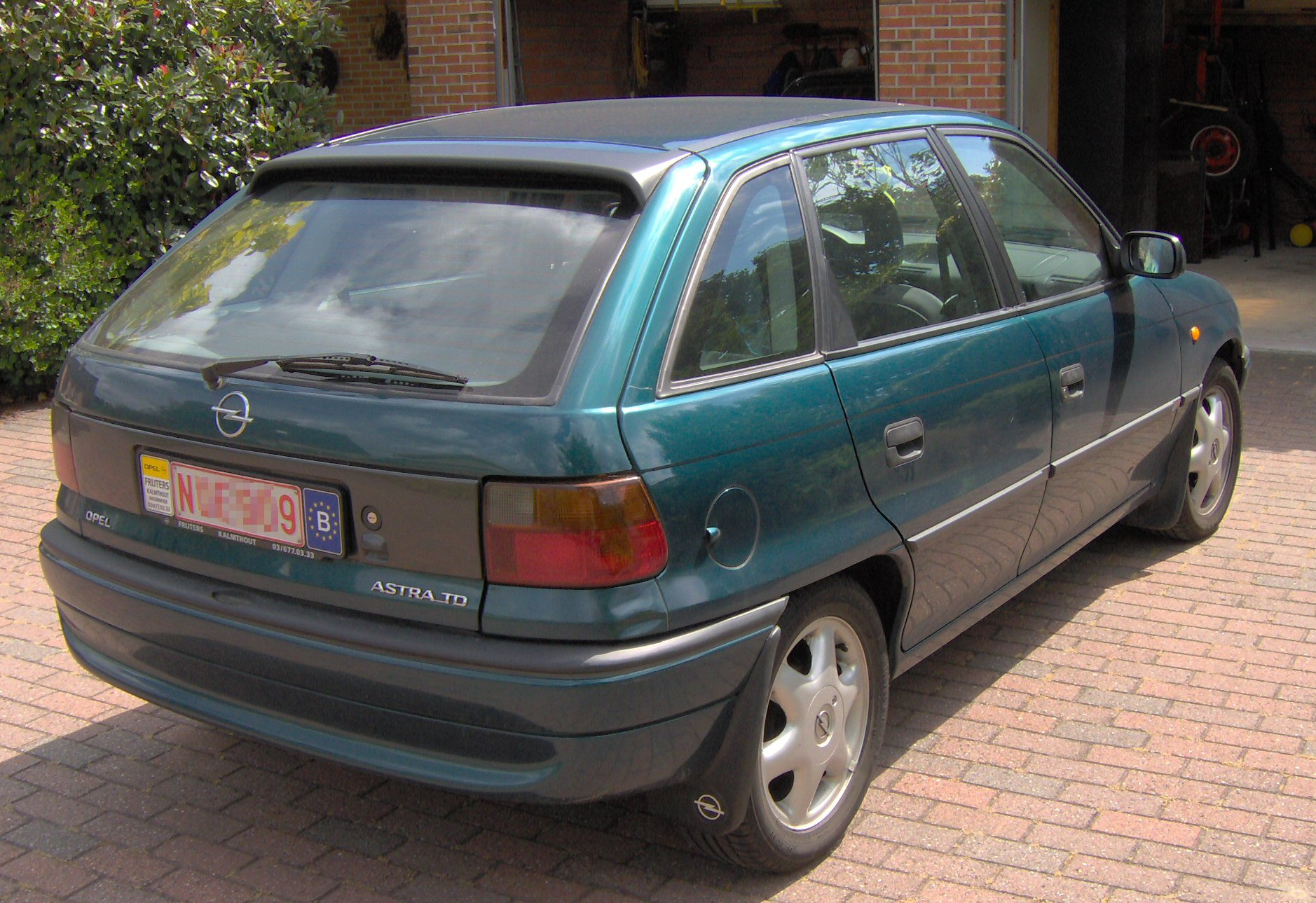 1997 Opel Astra TD (Right-back view)